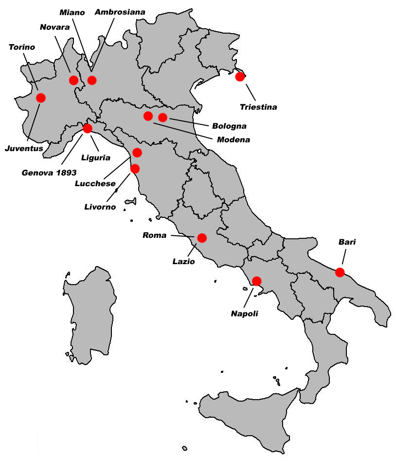 Serie A 1938-39 team locations